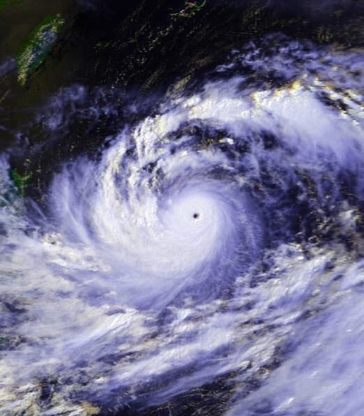 Typhoon Thelma (1987)